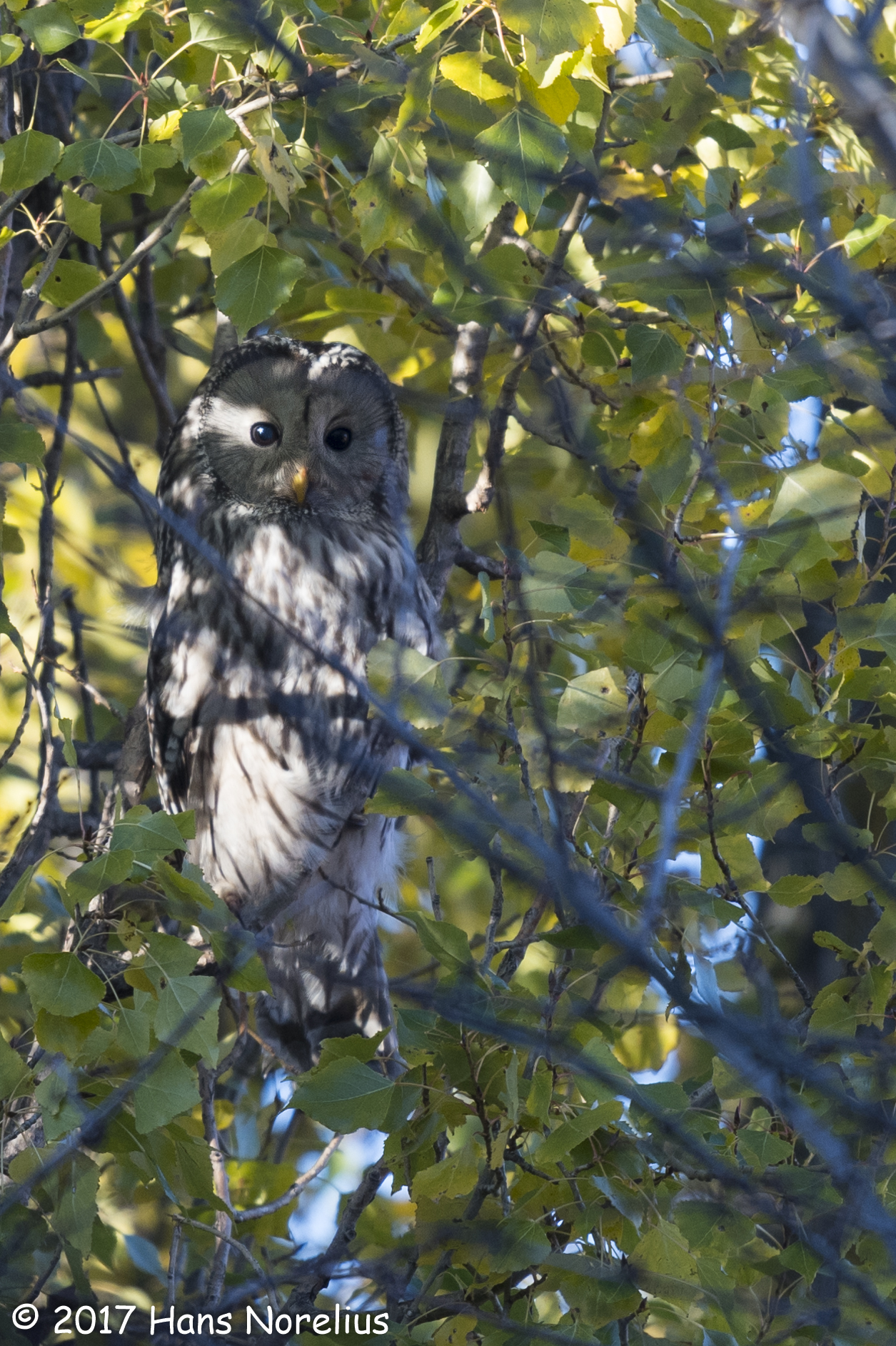 Ural Owl, Strix uralensis This was the 2:nd recording of this owl within the central city of Stockholm.